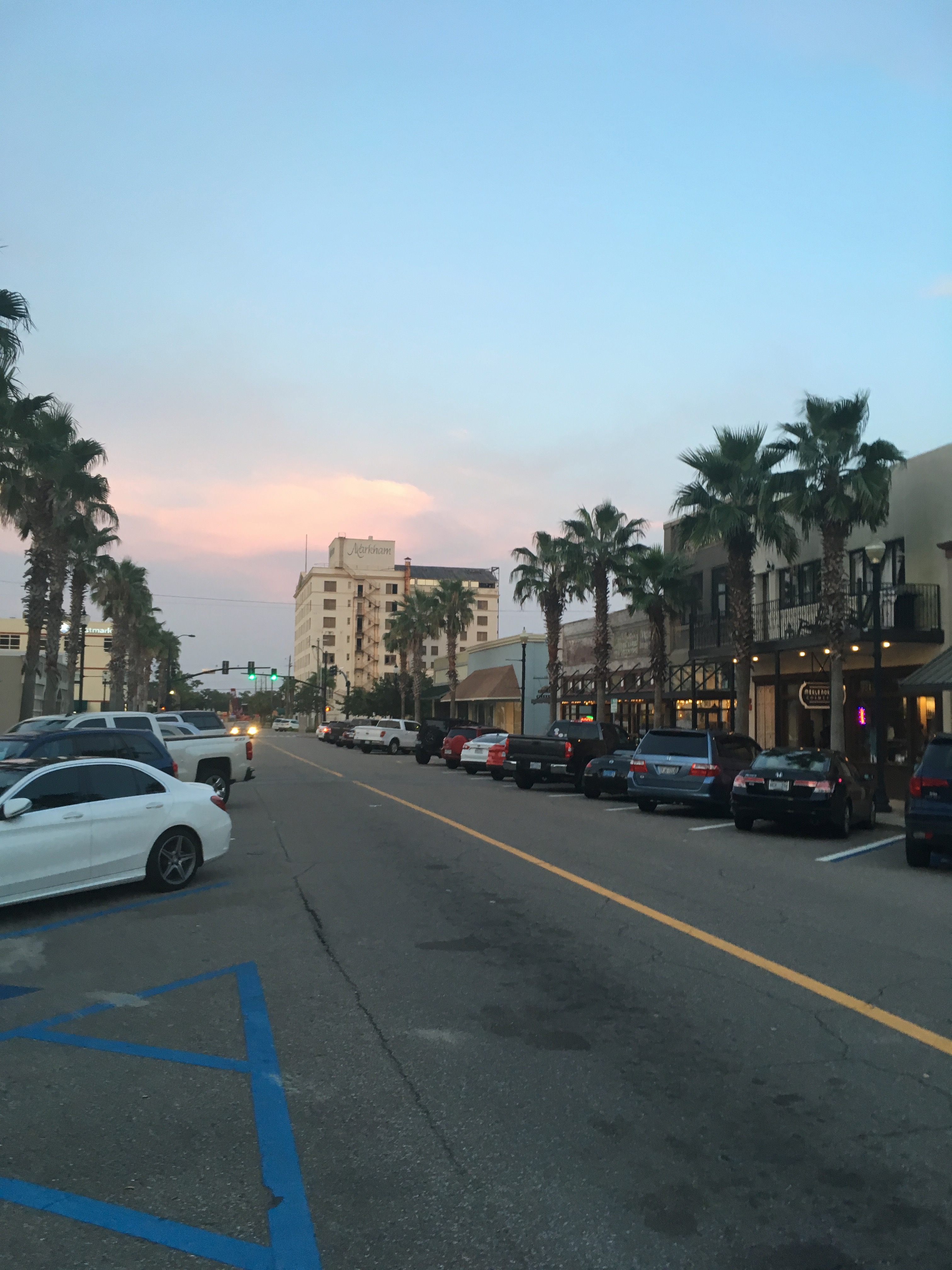 14th Street in downtown Gulfport, MS, with old Markham Hotel in background.